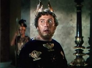 Screenshot of Peter Ustinov from the trailer for the film Quo Vadis